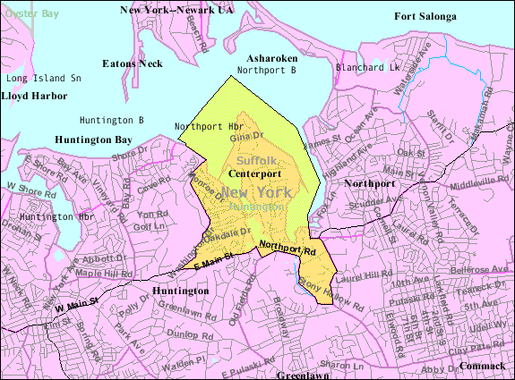 U.S. Census 2000 reference map for Centerport